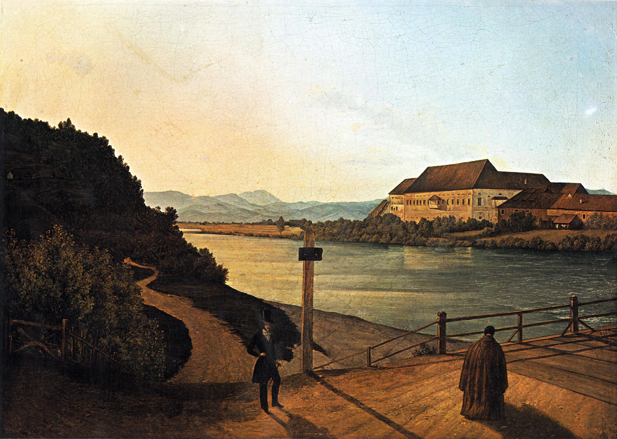 Stara grofija